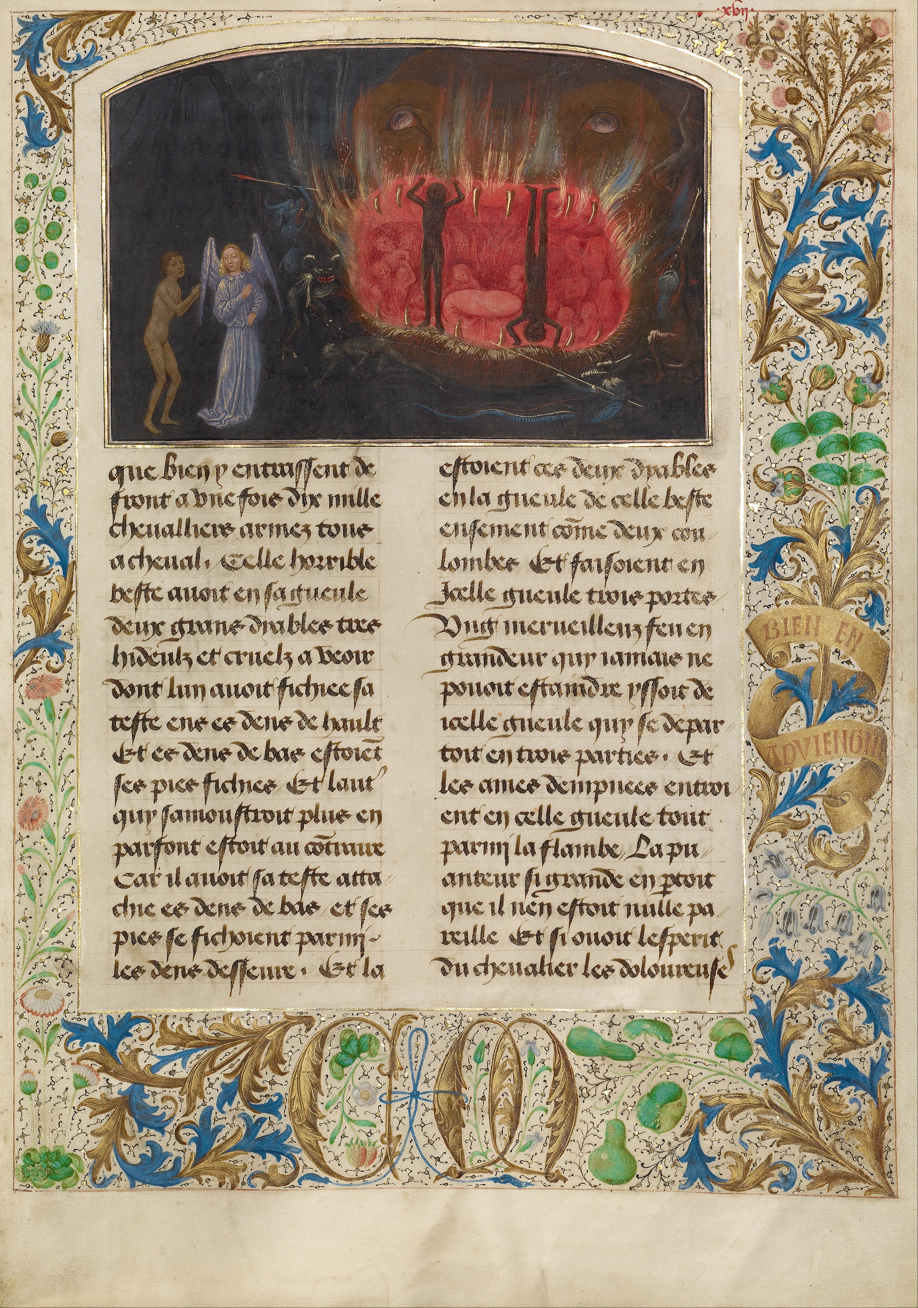 the Visio Tnugdali, a medieval vision of hell and heaven: The guardian angel shows Tundalus the gaping mouth of a monster, in whose belly poor souls are tortured. The mouth is held open by two giants, one of them standing on his head.